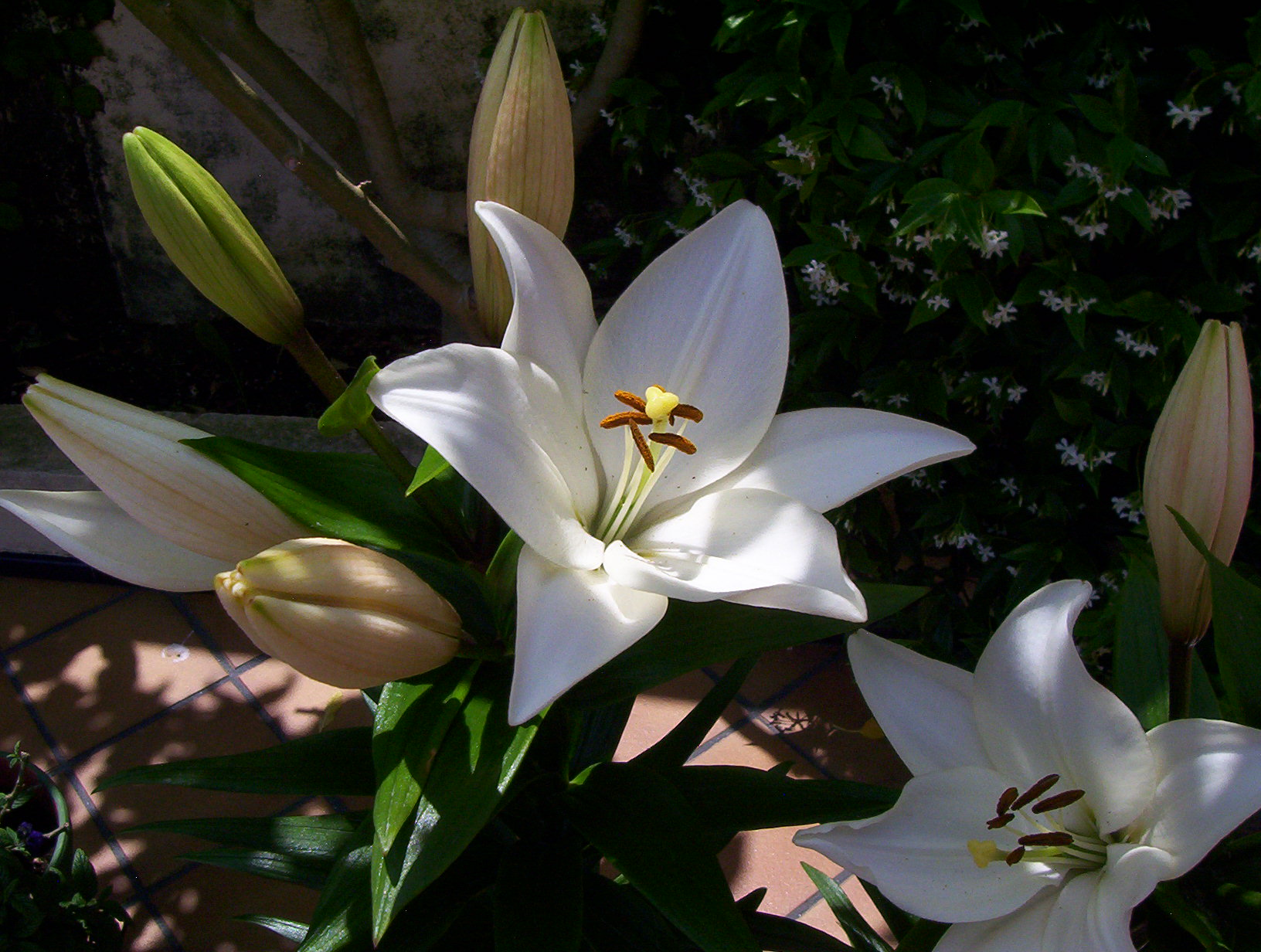 Asiatic Hybrid White Lilium, from private garden